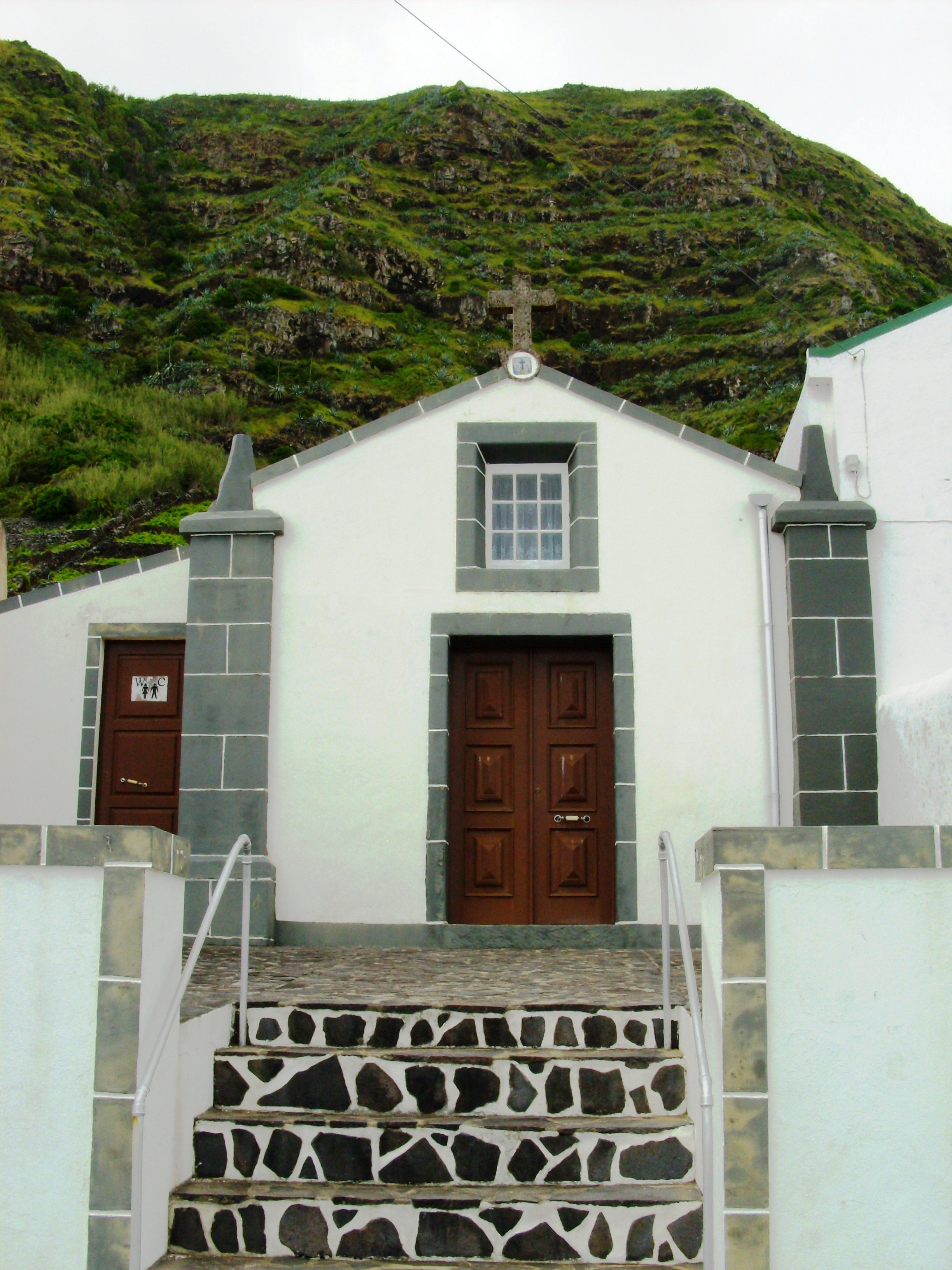 The facade of the Hermitage of Nossa Senhora dos Prazeres in Maia, civil parish of Santo Espírito, municipality of Vila do Porto, Açores, Portugal